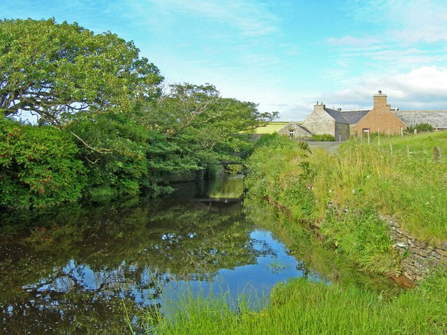 Burn just south of Maes Howe, Mainland Orkney